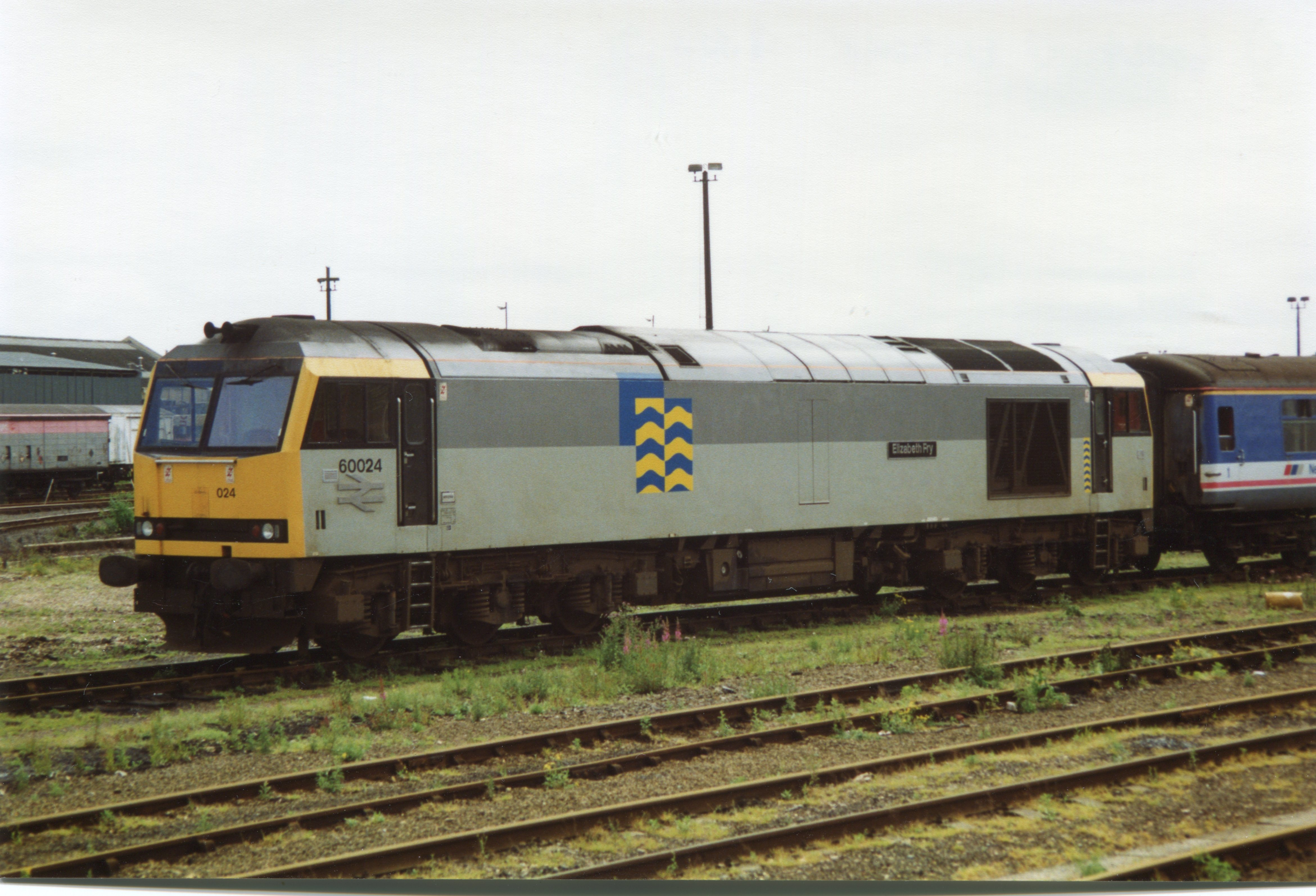 60024 - Eastleigh